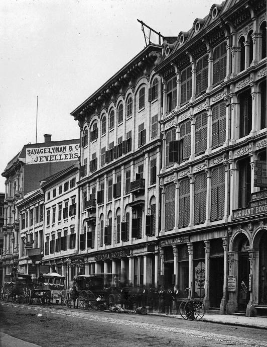 Photograph, Ottawa Hotel, Montreal, QC, 1874, William Notman (1826-1891), Silver salts on glass - Wet collodion process - 25 x 20 cm